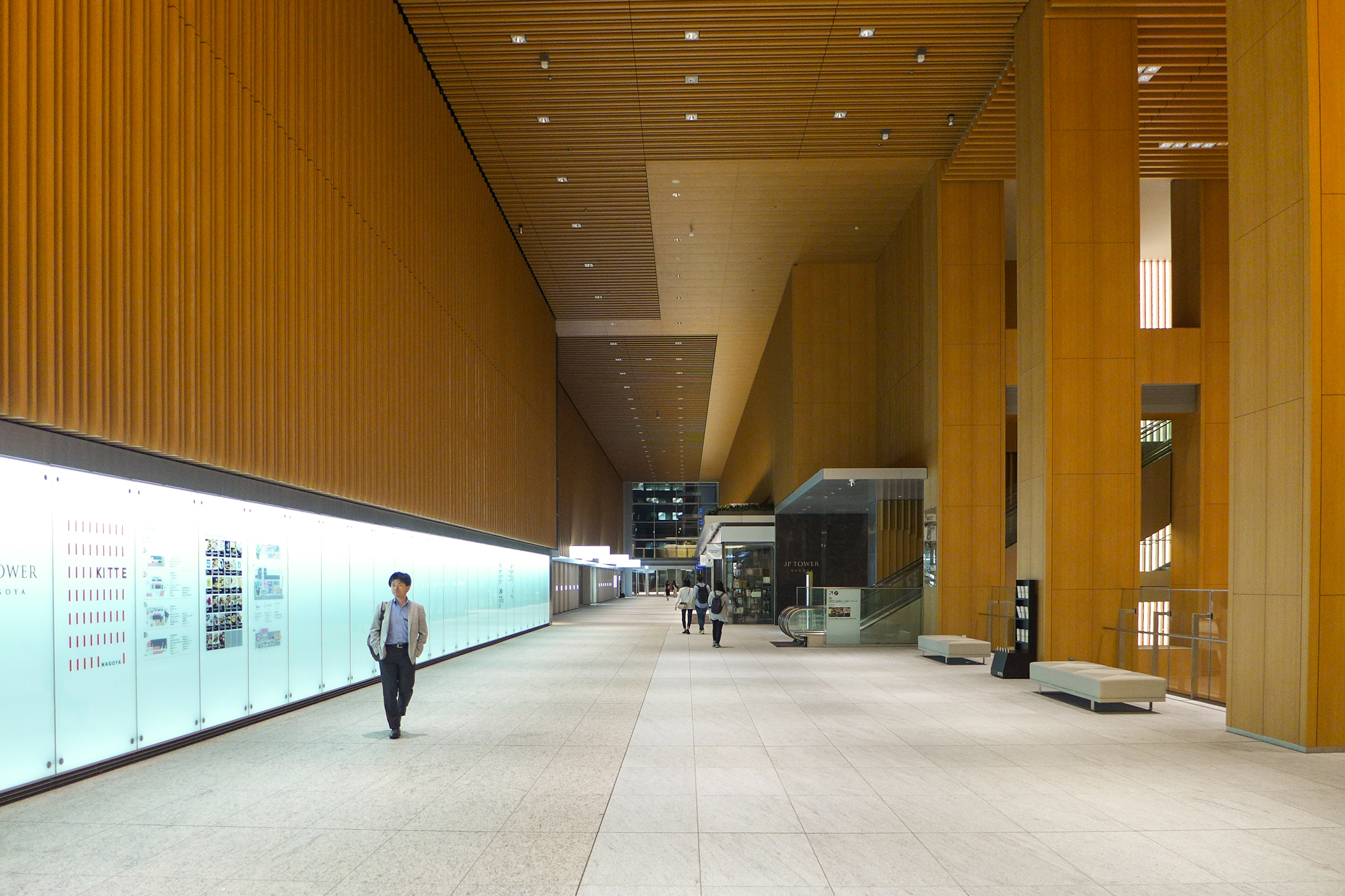 JP Tower Nagoya Access